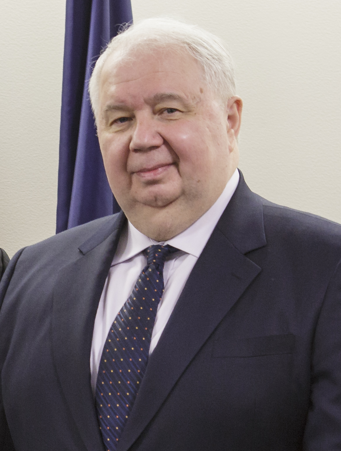 Russian Ambassador Sergey Kislyak poses for a picture after astronaut William Shepherd was awarded the Russian Medal for Merit in Space Exploration by Ambassador Kislyak, Friday, Dec. 2, 2016 at NASA Headquarters in Washington.